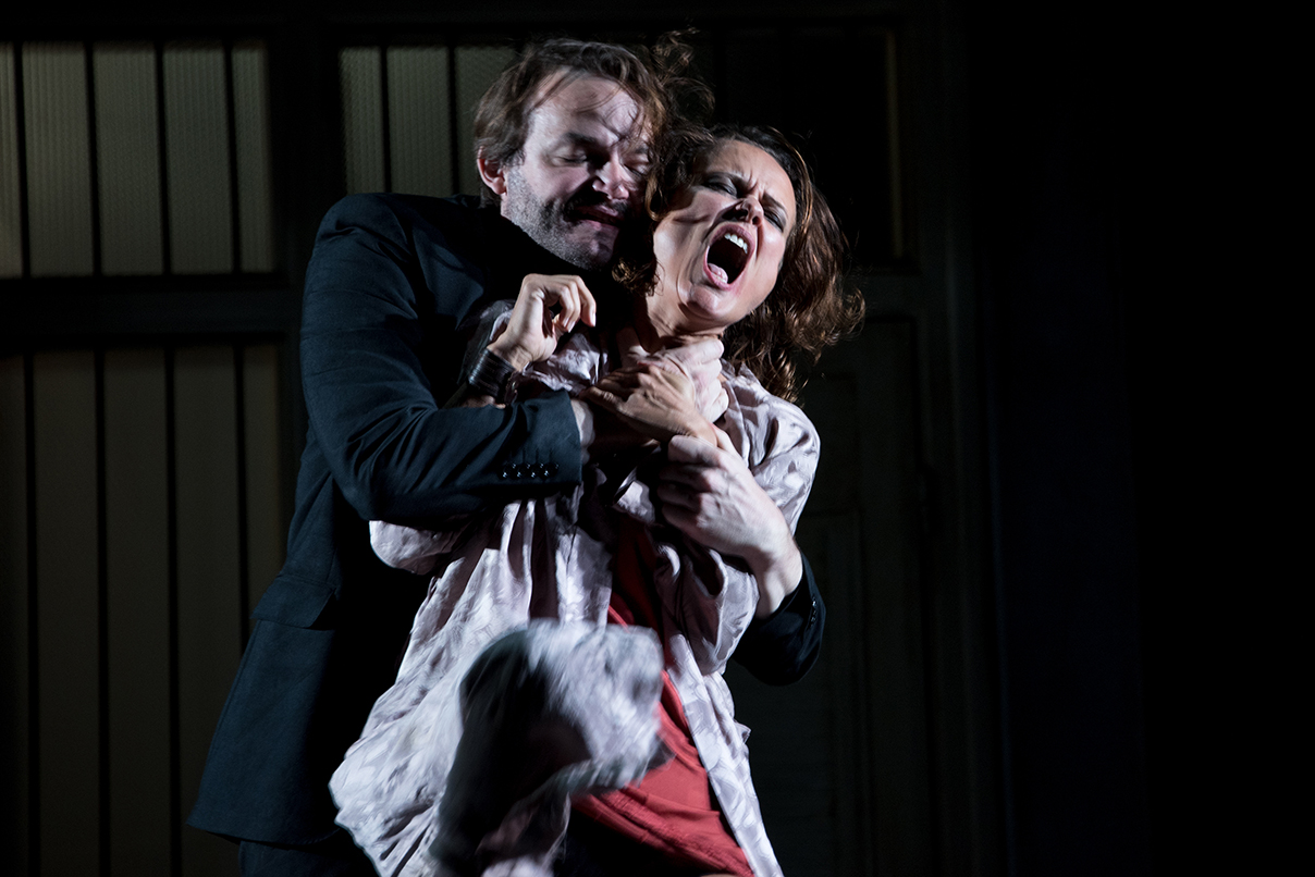 Niemand, Tragödie in 7 Bildern by Ödön von Horvath, world premiere at the Theater in der Josefstadt, Vienna, 1st of september 2016, directed by Herbert Föttinger, with Martina Stilp as Gilda und Roman Schmelzer as Wladimir